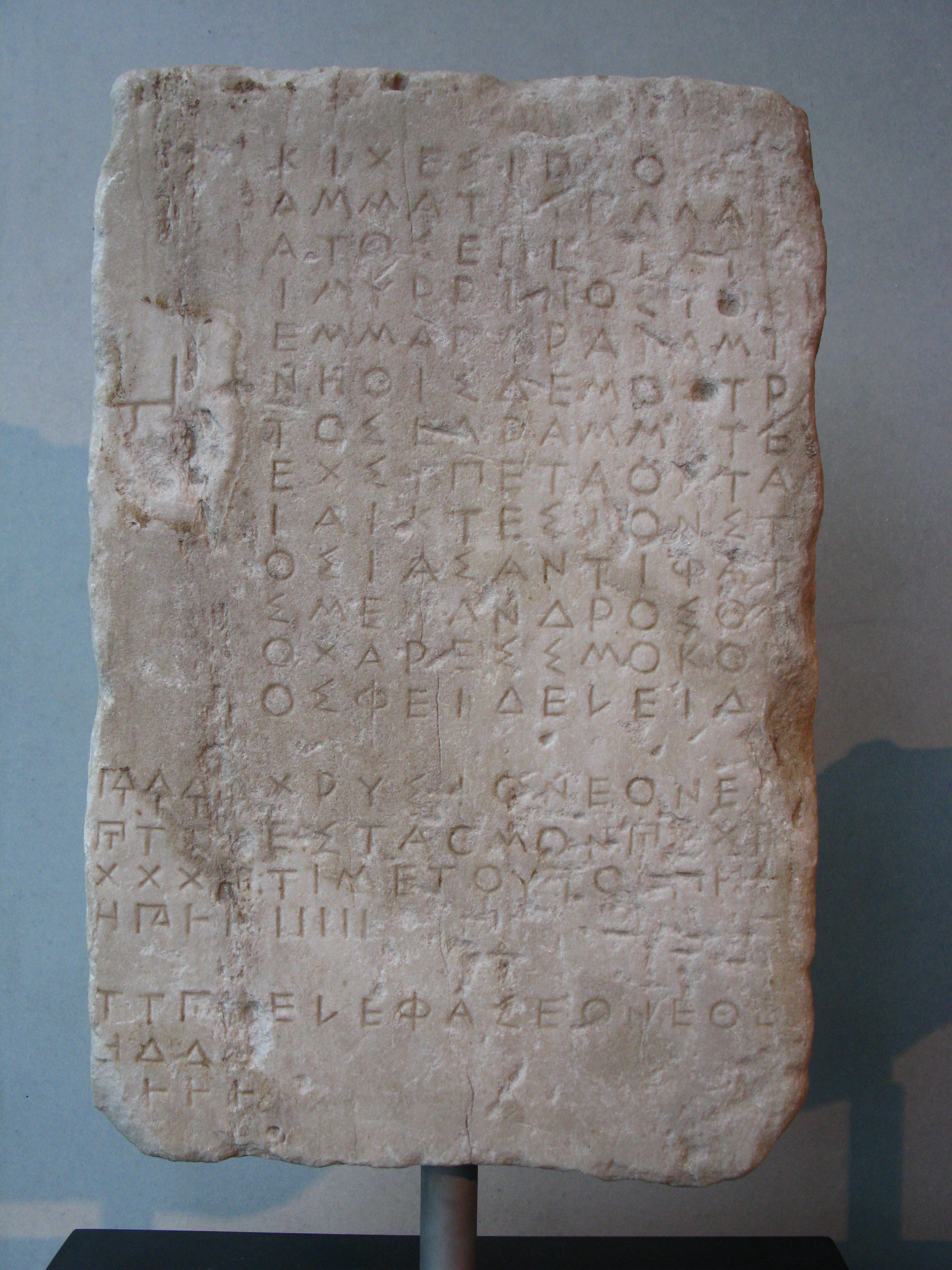 Ancient Greek inscription containing account of the supervisors for the construction of the chryselephantine (gold and ivory) statue of Athena Parthenos in the Parthenon by the sculptor Phidias (EM 6765), 440/439 BC. New Acropolis Museum, Athens